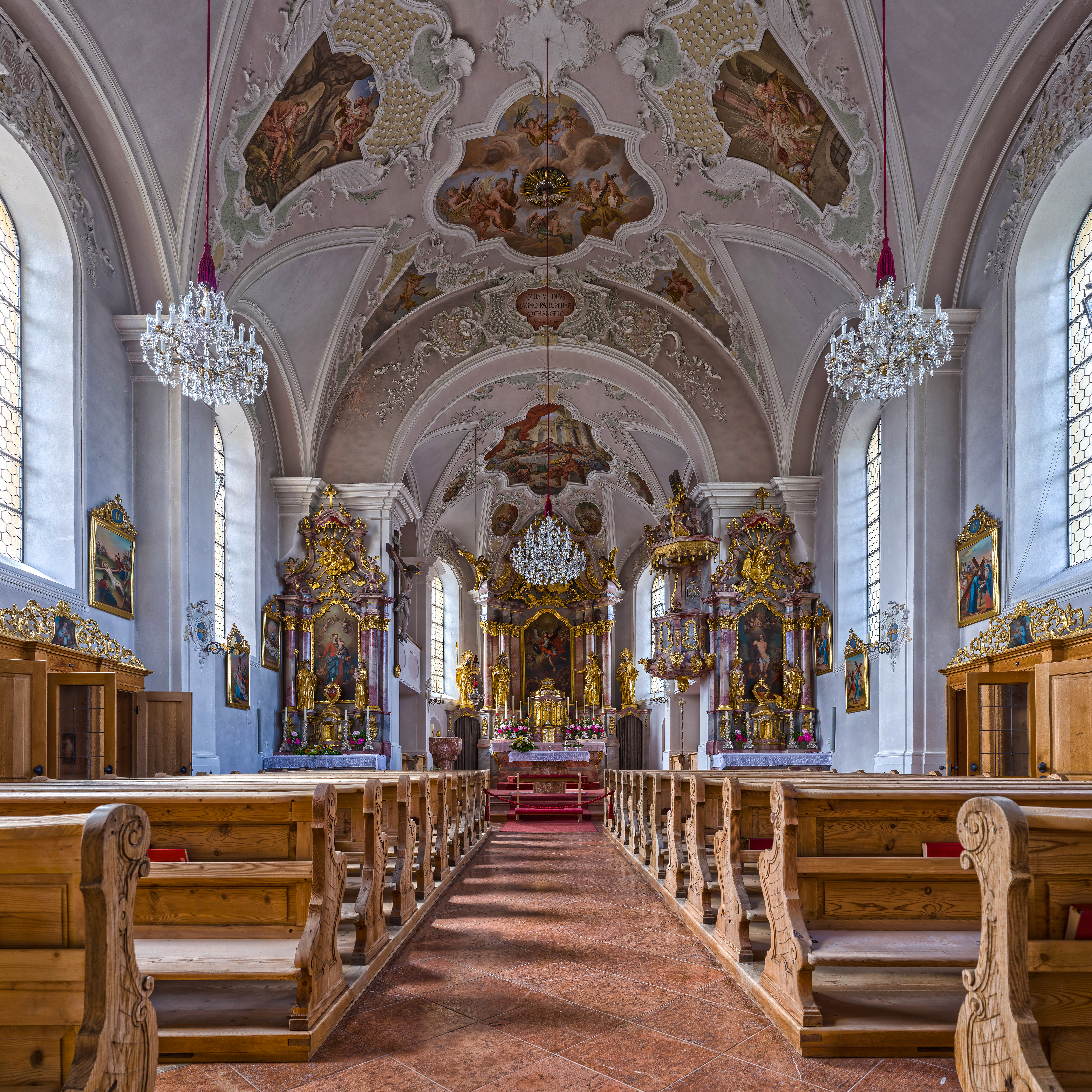 Nave of the church of St. Michael in Ellmau (Tyrol, Austria). View from the main entrance towards the altar.